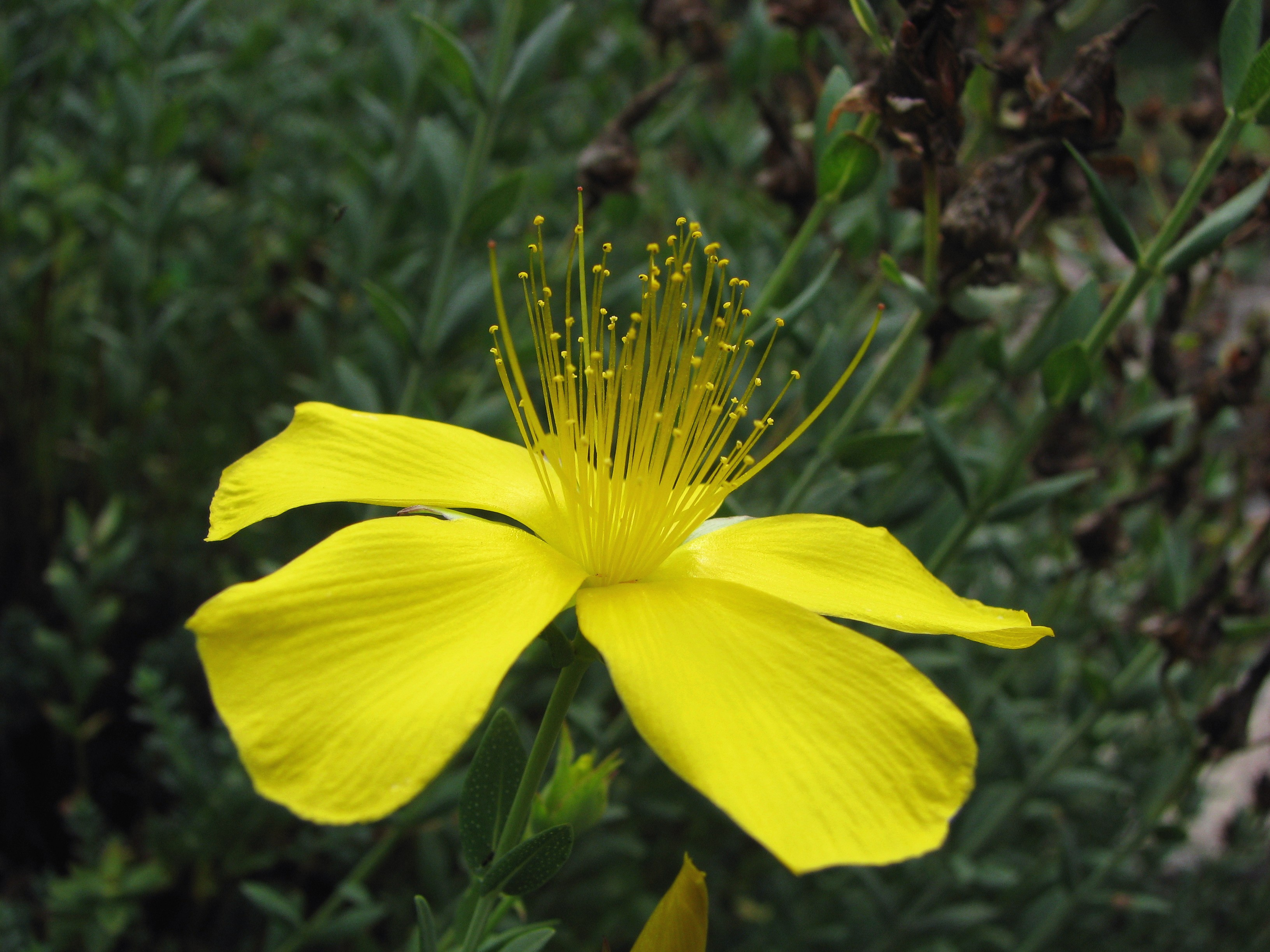 Mount Olympus St. John's wort Hypericum olympicum flower, plant cultivated in Wrocław University Botanical Garden, Poland.